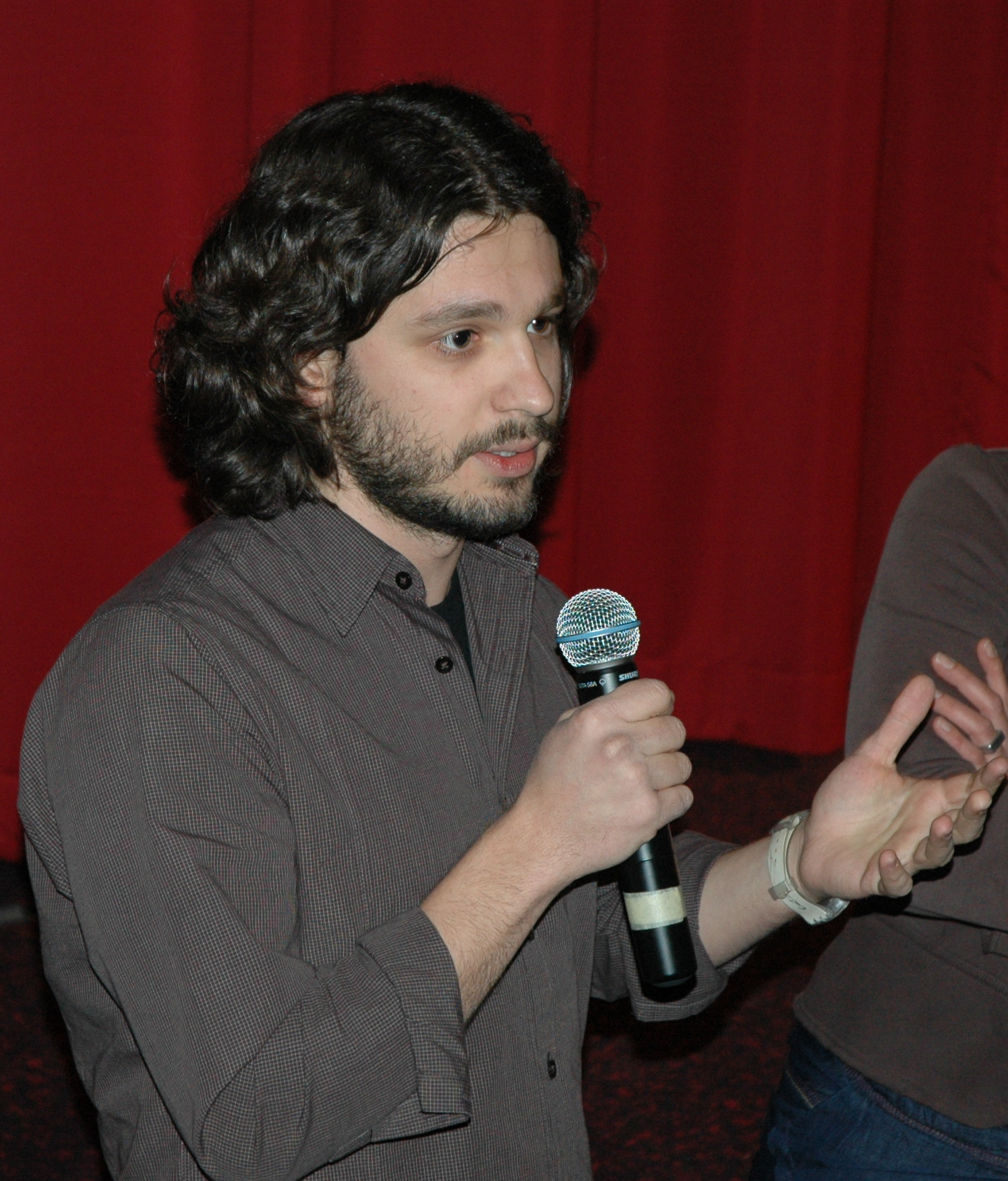 Serbian film director Stefan Arsenijević presenting his new film "love and other crimes" at the Crossing Europe Film Festival in Linz, Austria